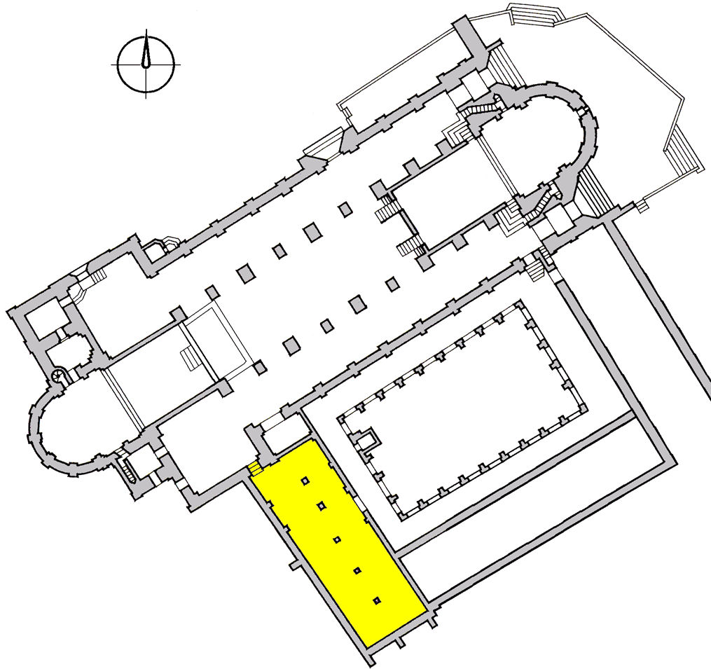 cathedral of Bamberg, Germany